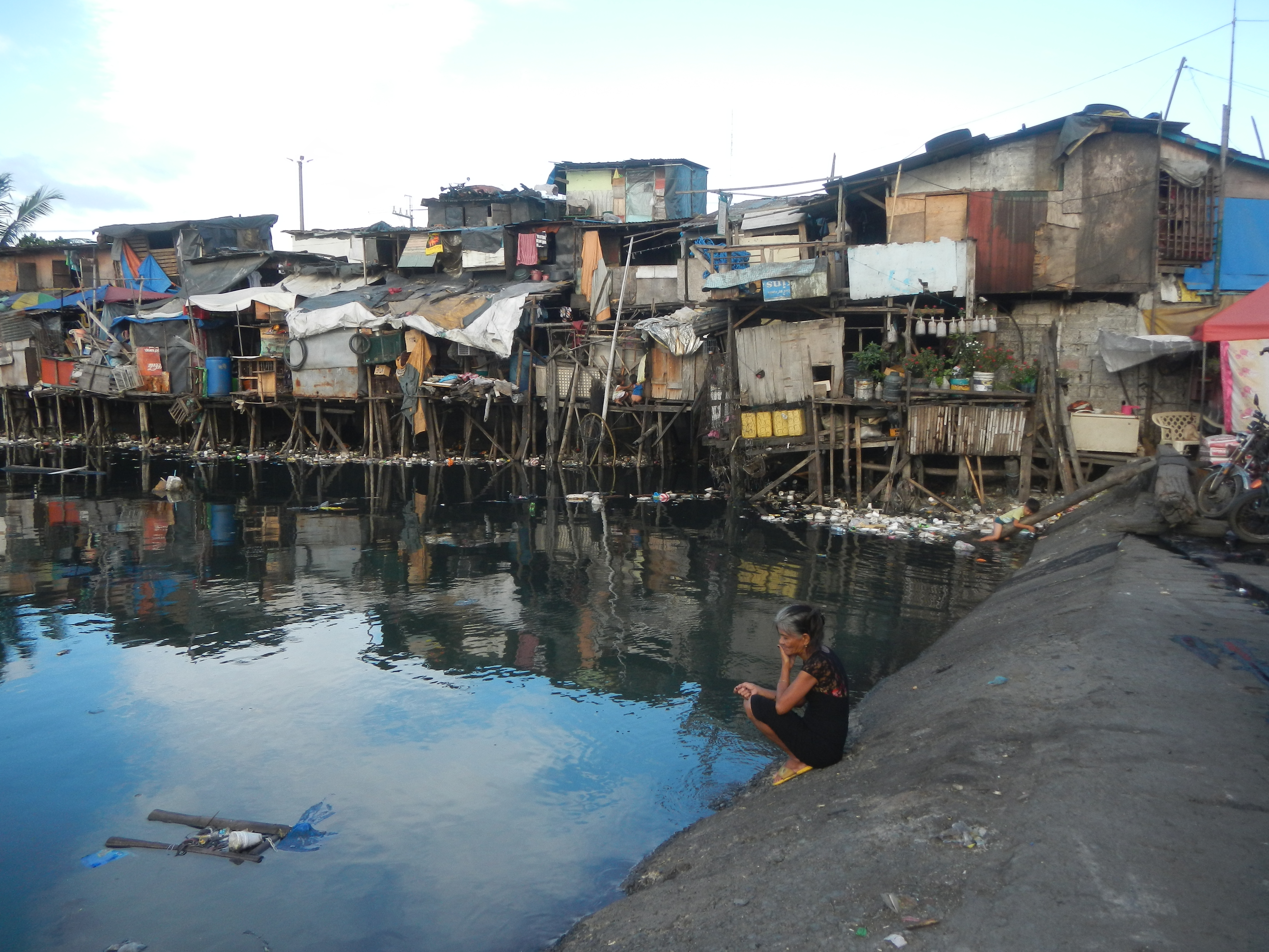 Maynilad Water Services Philippine Ports Authority, Port Management Office-NCR North TMO-Vitas Private Ports, Pier 18, Vitas, Marcos Road, Road 10, Tondo, Manila Barangays 91, 92, 93, 98, 99, 100, 101, 102, 103, 104, Zone 8, 105, 106, 107, 108, 109, Zone 9, District I, Vitas, Balut & Capulong, Manila Manila Harbour Centre (Radial Road 10, Tondo, Manila) R-10 Bridge I (Estero de Vitas) 20 metric tons load limit Marcos Road or Radial Road 10 or R-10, Radial Road 10 (Manila) 14°36'35"N 120°57'29"E Radial Road 10 is a 6-10 lane in Legislative districts of Manila, North Bay Tondo, Manila, City of Manila Slums in Manila, Two esteros in Manila rehabilitated Vitas Street 14°37'31"N 120°57'46"E Estero de Vitas (Vitas Mouth) 14°37'60" N 120°58'1" E ~1m asl 23:15 PHT UTC/GMT+8 List of roads in Metro Manila Balut 14°38'2"N 120°57'44"E Gagalangin, Tondo 14°37'34"N 120°58'16"E in the List of barangays of Metro Manila, Legislative districts of Manila a) Barangays 94, 95, 96, 97, Zone 8, 133, Zone 11, District II, Tondo, Manila, to b) Barangays 161, Zone 14, 173, 174 and 179, Zone 14 District II, Gagalangin, Tondo, Manila, c) Barangays 172, Zone 15, District II, Gagalangin, Tondo, Manila d) Barangays 126 & 127, Zone 10, Balut, Tondo, Manila d) Barangays 129, 130, 131, Zone 11, 139, 140, Zone 12, District I, Balut, Tondo, Manila e) Barangay 128, Zone 10, Smokey Mountain, Tondo, Manila Tondo, Manila, City of Manila, surrounded by List of rivers and estuaries in Metro Manila (Note: Judge Florentino Floro, the owner, to repeat, Donor Florentino Floro of all these photos hereby donate gratuitously, freely and unconditionally all these photos to and for Wikimedia Commons, exclusively, for public use of the public domain, and again without any condition whatsoever).